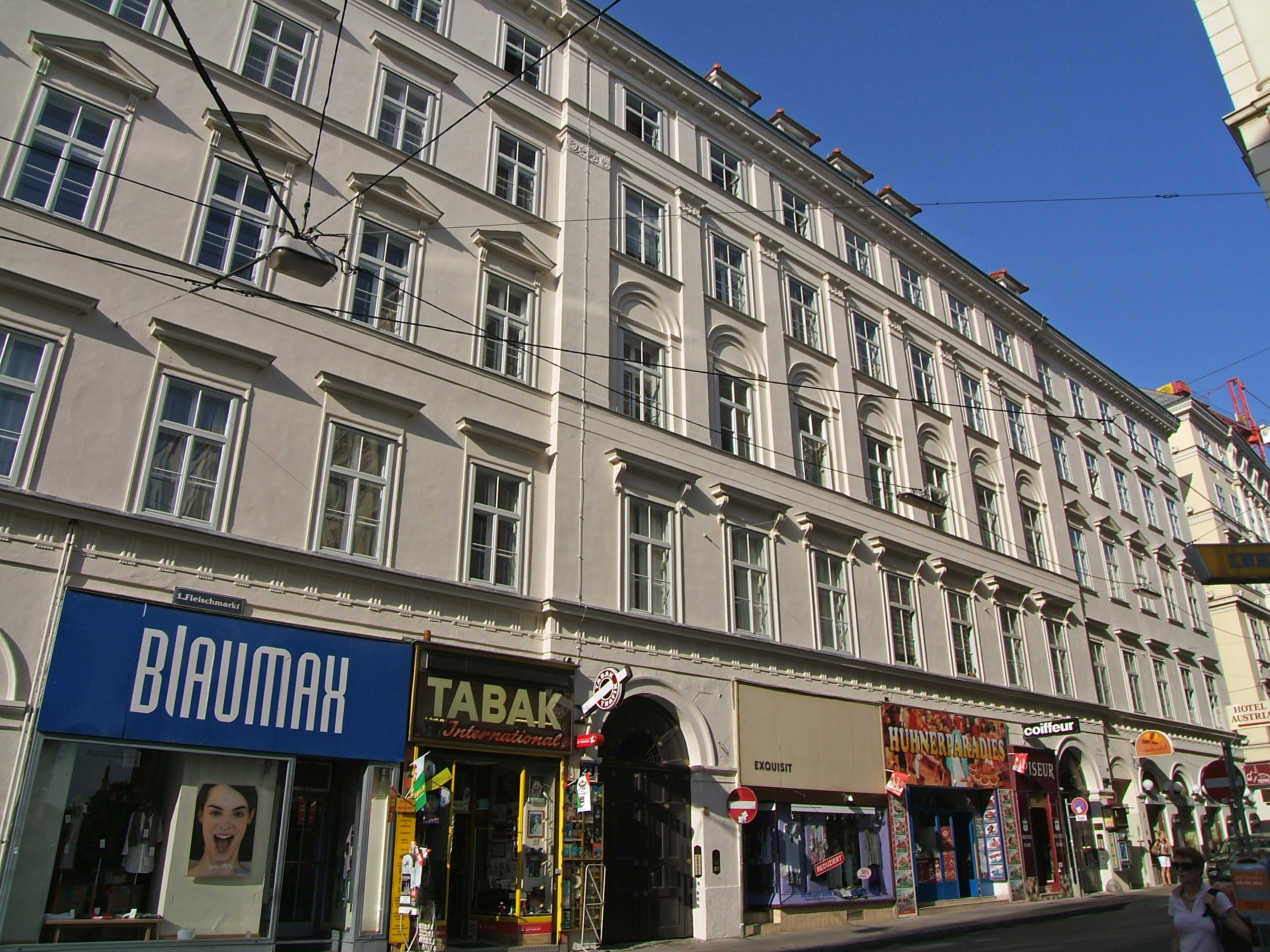 Tenement in the 1st district of Vienna Fleischmarkt 22